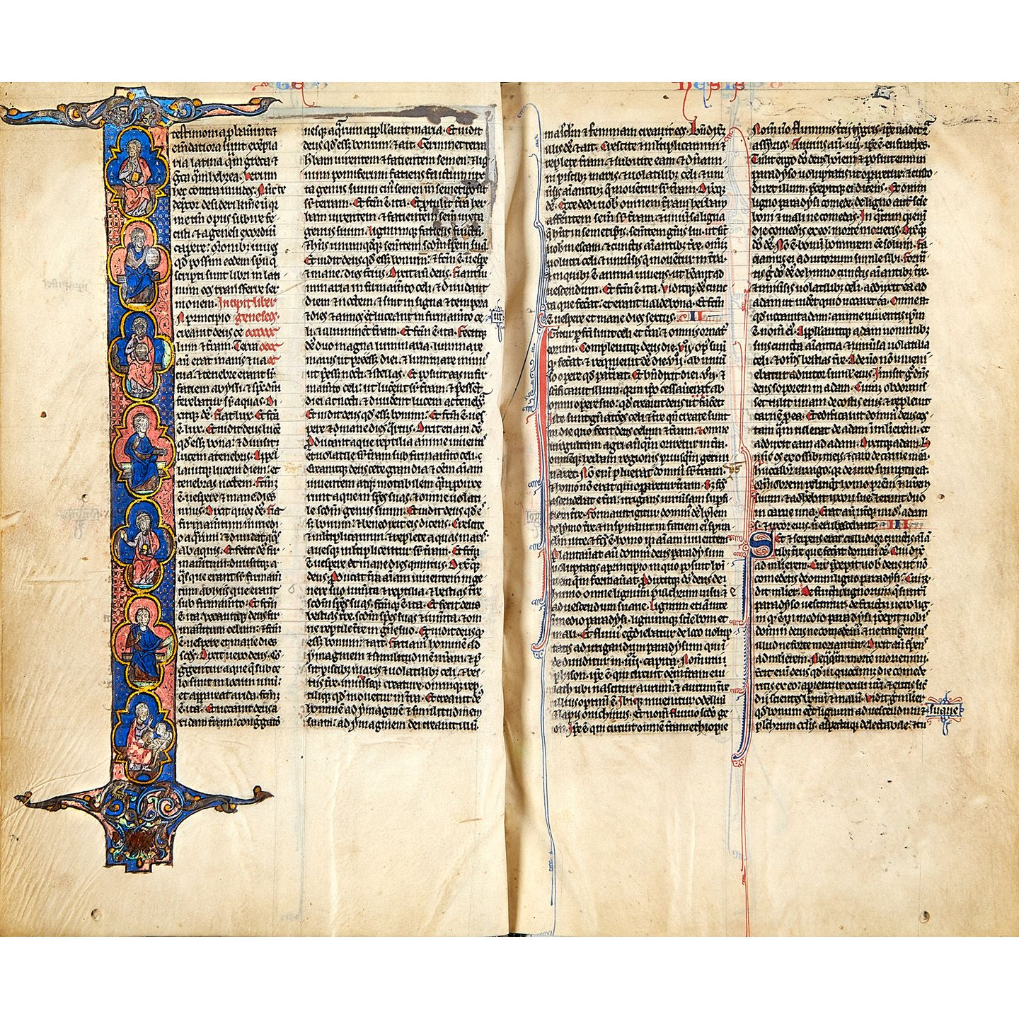 The Canterbury Trussel Bible, aka "Lyghfield Bible" with prologues of Jerome and Interpretation of Hebrew Names, in Latin, illuminated manuscript on fine parchment [southern England, or perhaps northern France, third quarter of the thirteenth century]